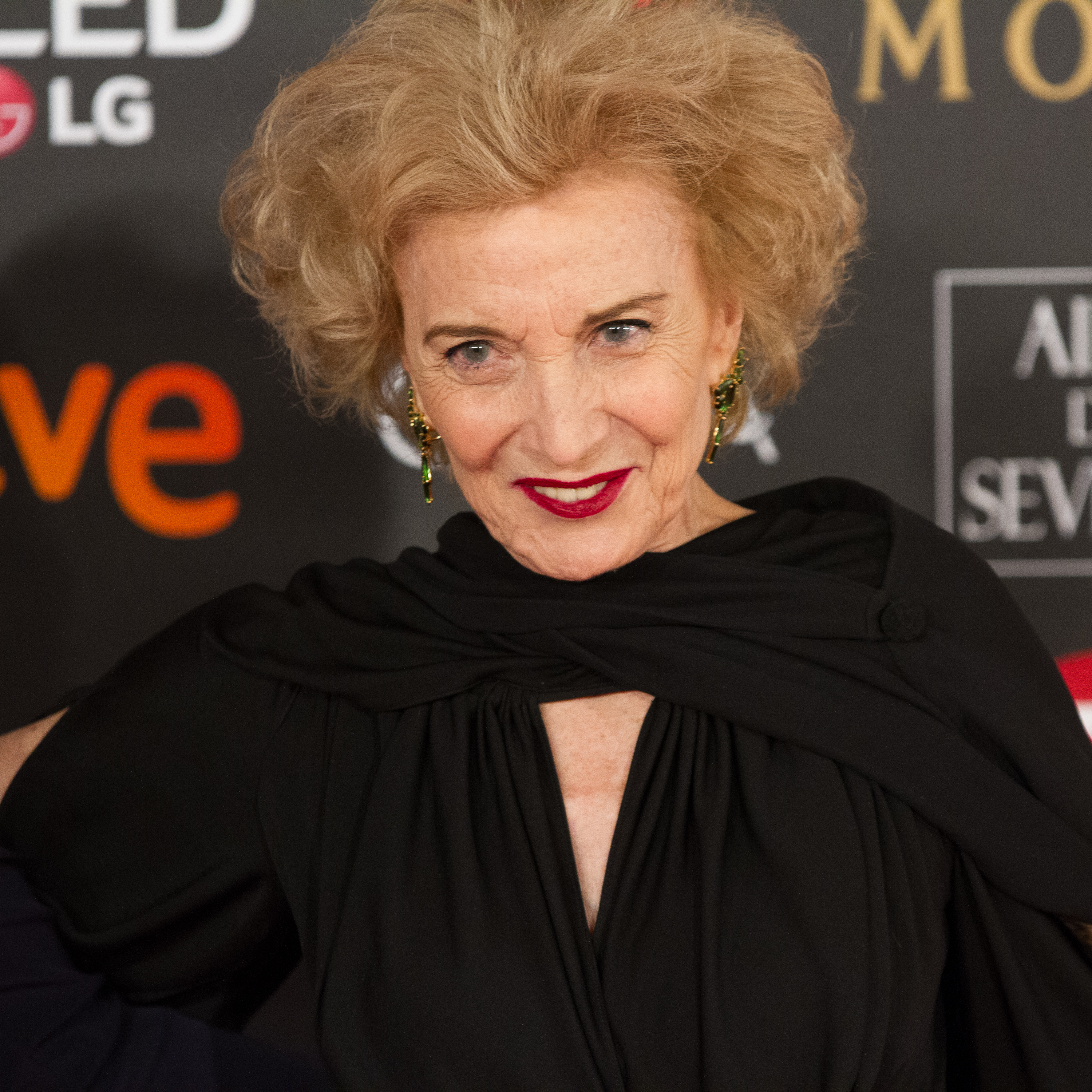 32nd Goya Awards, 2018.